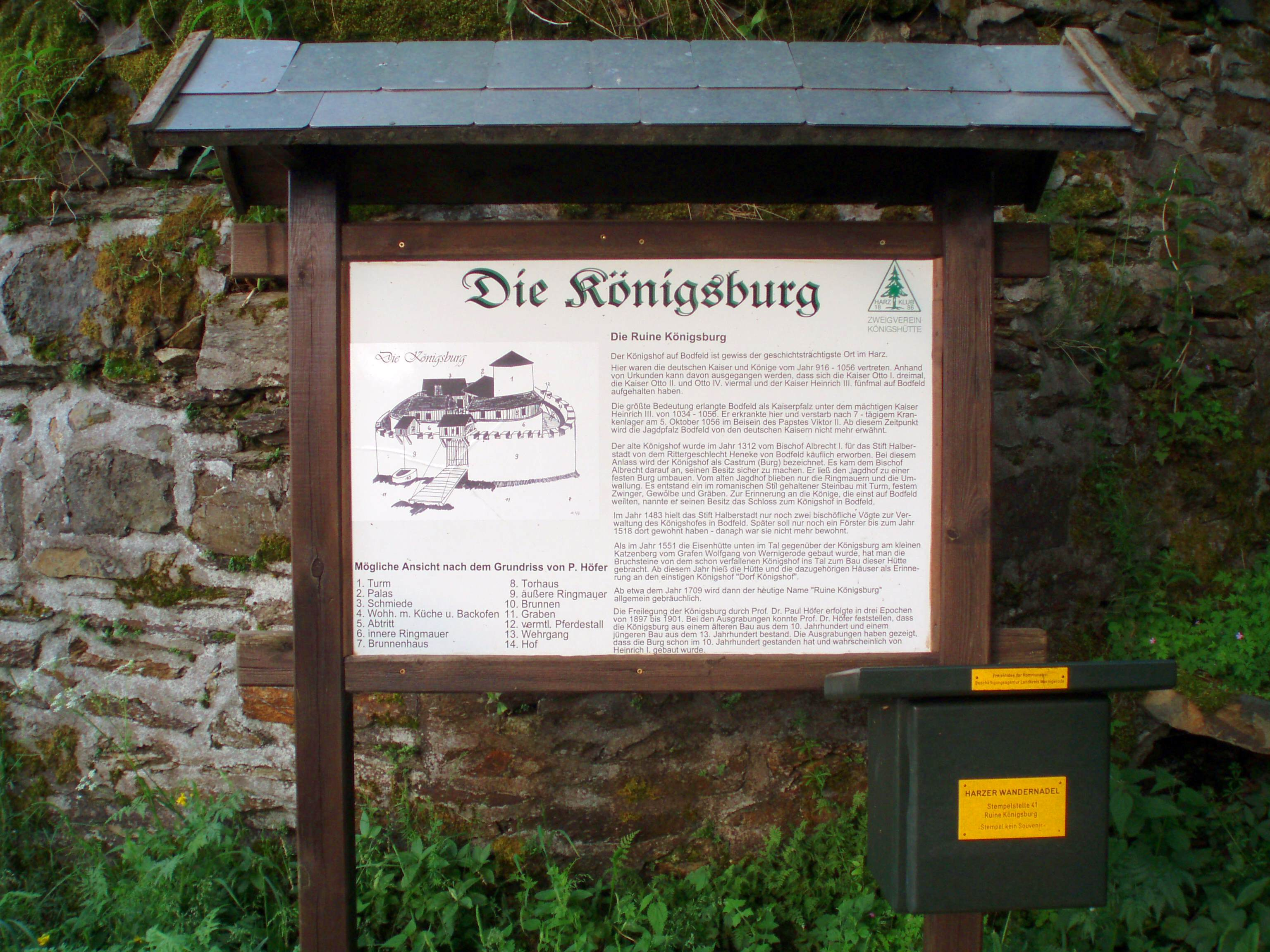 Harz hiking network control point on the Königsburg, Germany